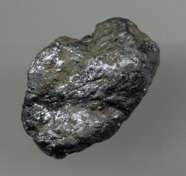 Graphite (2X3cm)